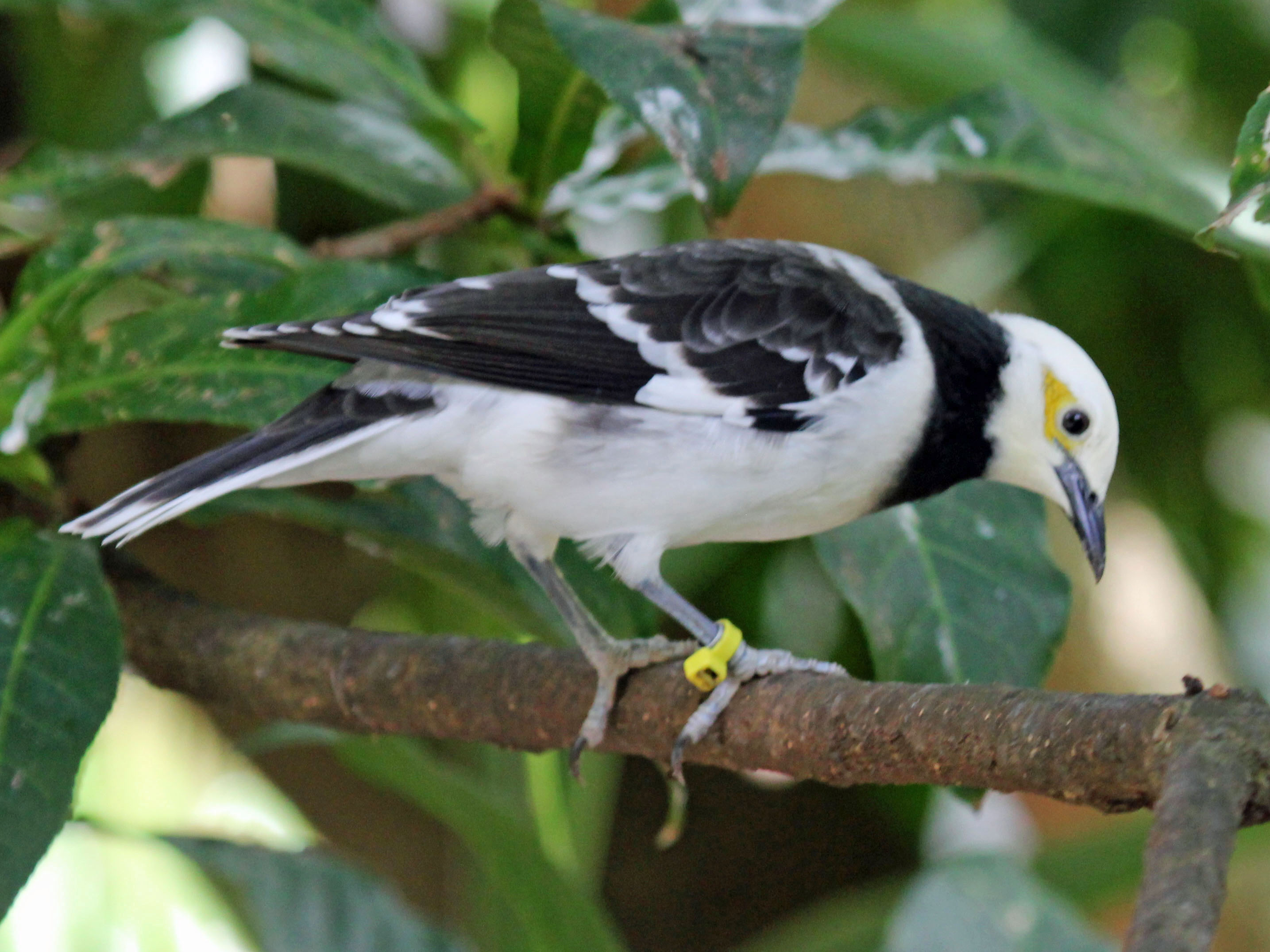 Black-collared Starling (Sturnus nigricollis also Gracupica nigricollis) - Miami Zoo